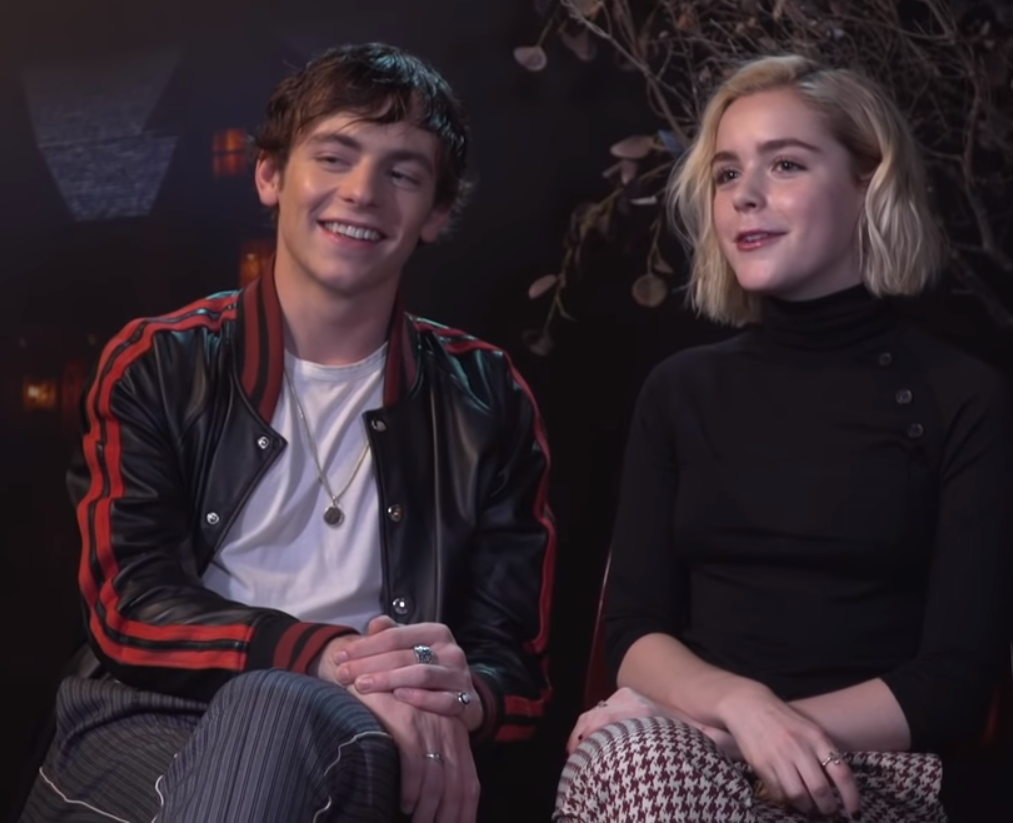 Stars of Netflix’s The Chilling Adventures Of Sabrina, Kiernan Shipka and Ross Lynch play a hilarious game of TEEN TV SHOW CHARADES: can you guess the show from their acting it out? Plus, they reveal what it was really like to film their most romantic scenes together, their fave things about each other AND what we can expect from a SABRINA x ARCHIE Riverdale crossover!